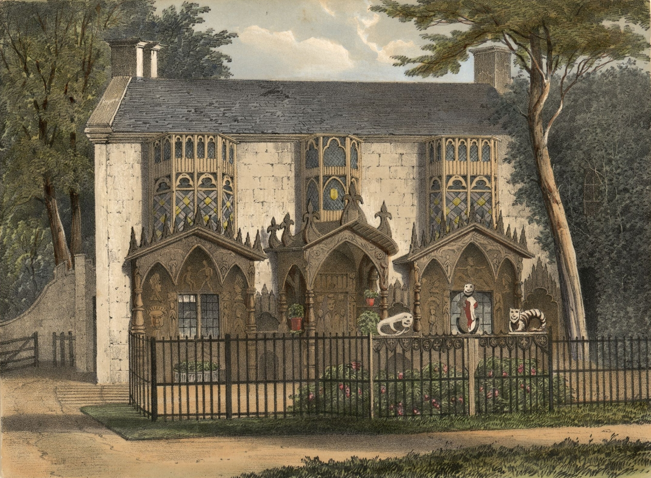 Plas Newydd, near Llangollen : the seat of the late Lady Eleanor Butler and Miss Ponsonby